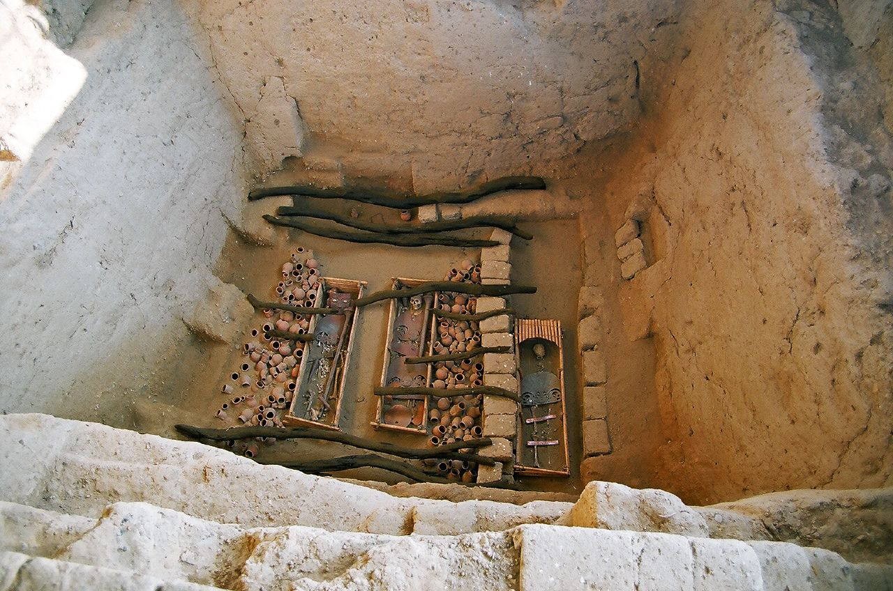 The tomb of the priest, found underneath the tomb of the lord of Sipan. Royal tombs of Sipán, Peru.